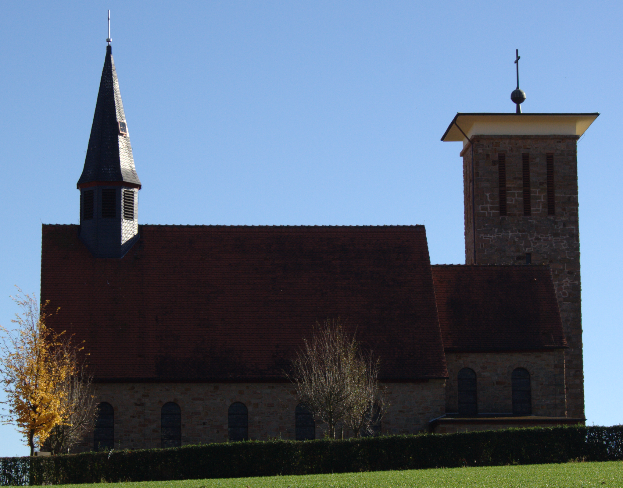 Church in Antrifttal Seibelsdorf / Hesse / Germany